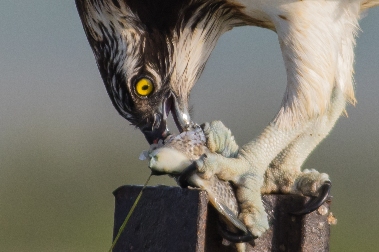 Osprey eating a fish. Valley of Springs Region, Israel.